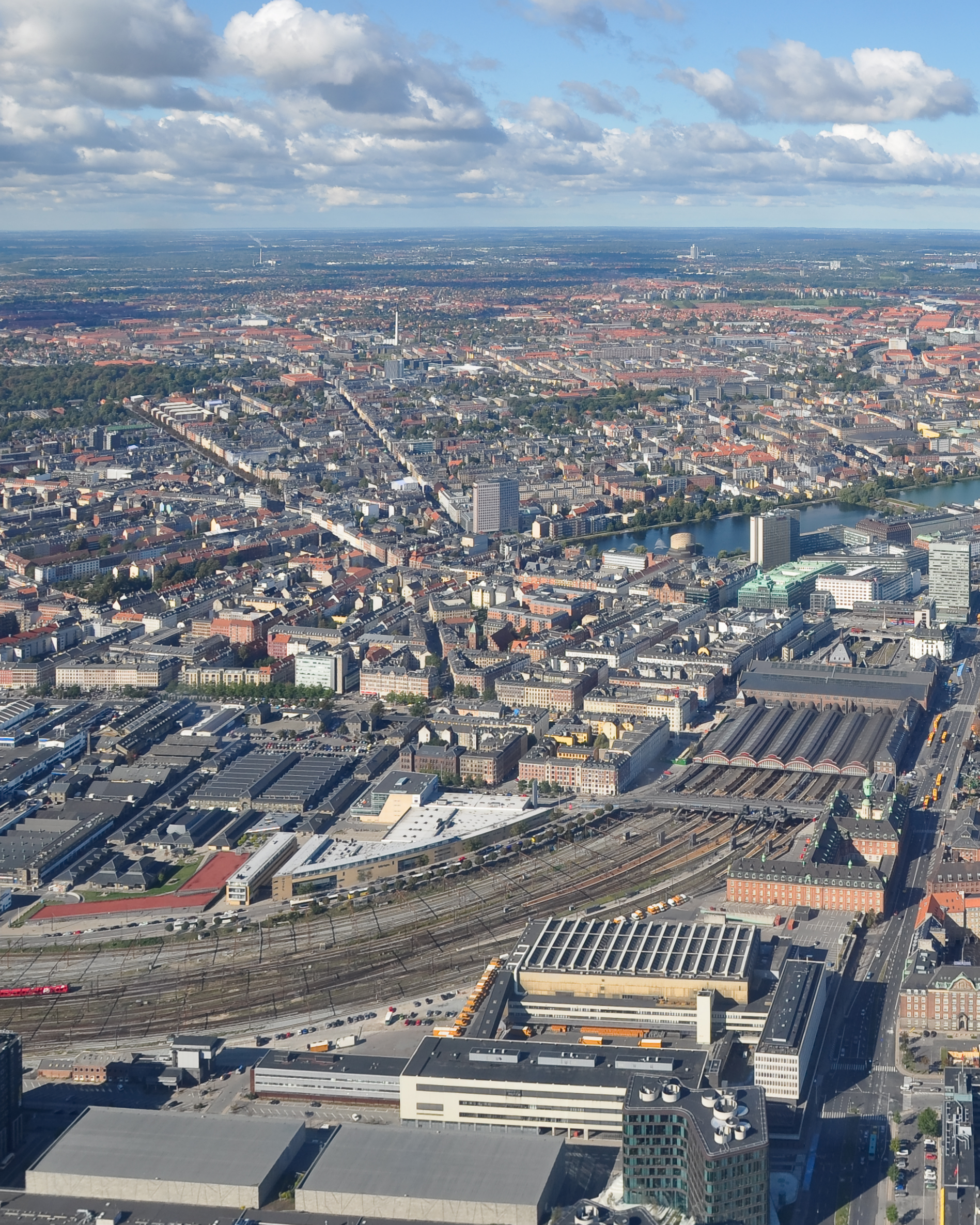 Aerial view of Vesterbro and Copenhagen Central Station, Denmark, from the South-East.